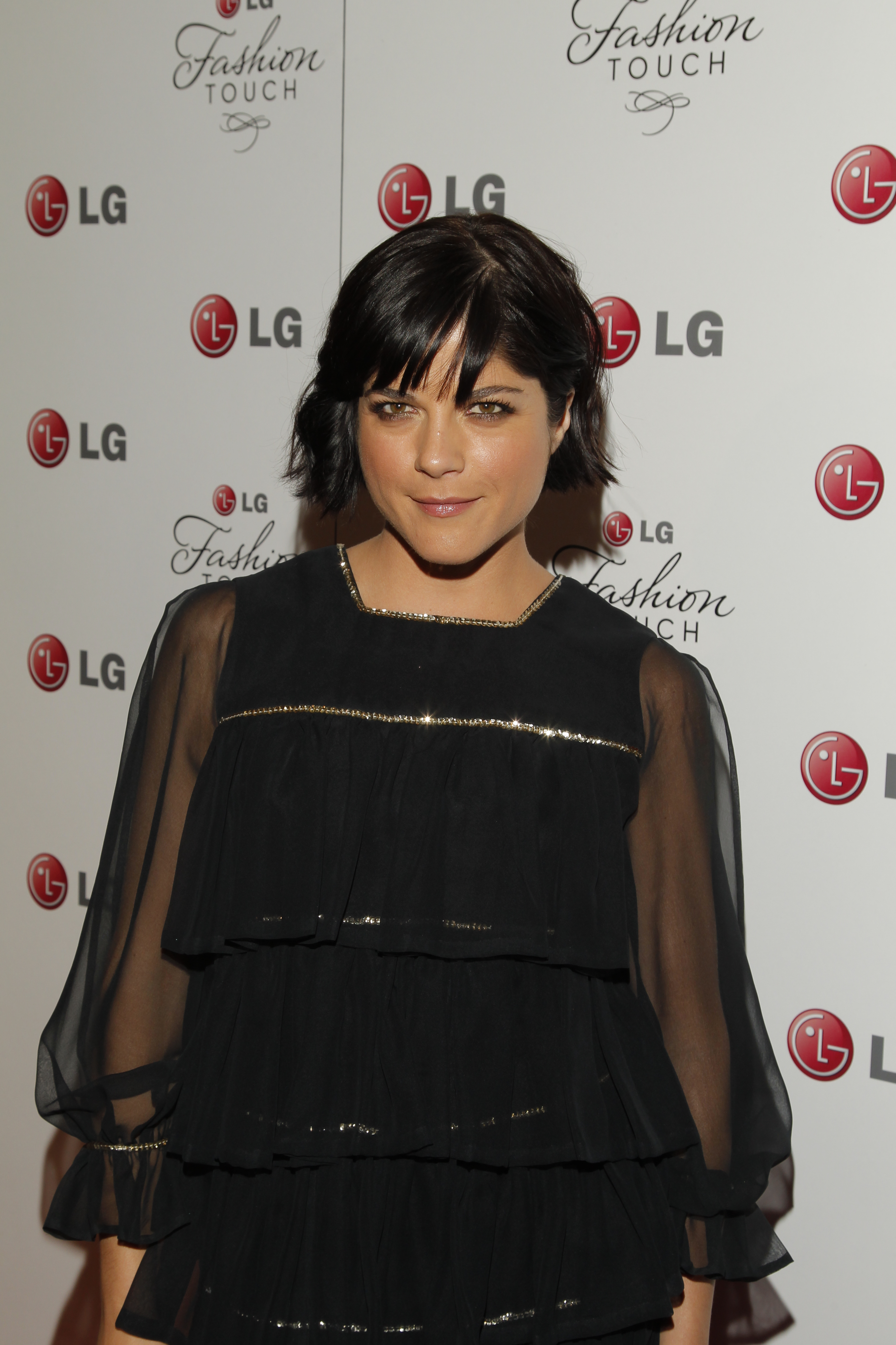 LG Mobile Phone Touch Event. Actress Selma Blair.